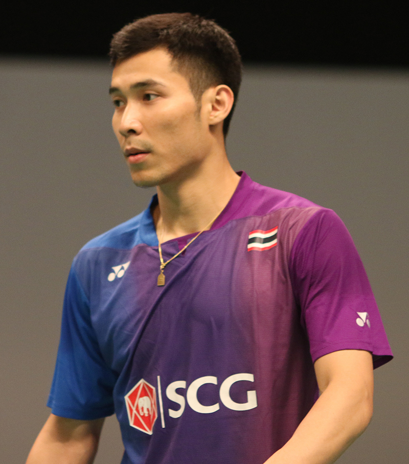 Suppanyu Avihingsanon at Indonesia Open 2017 badminton tournament